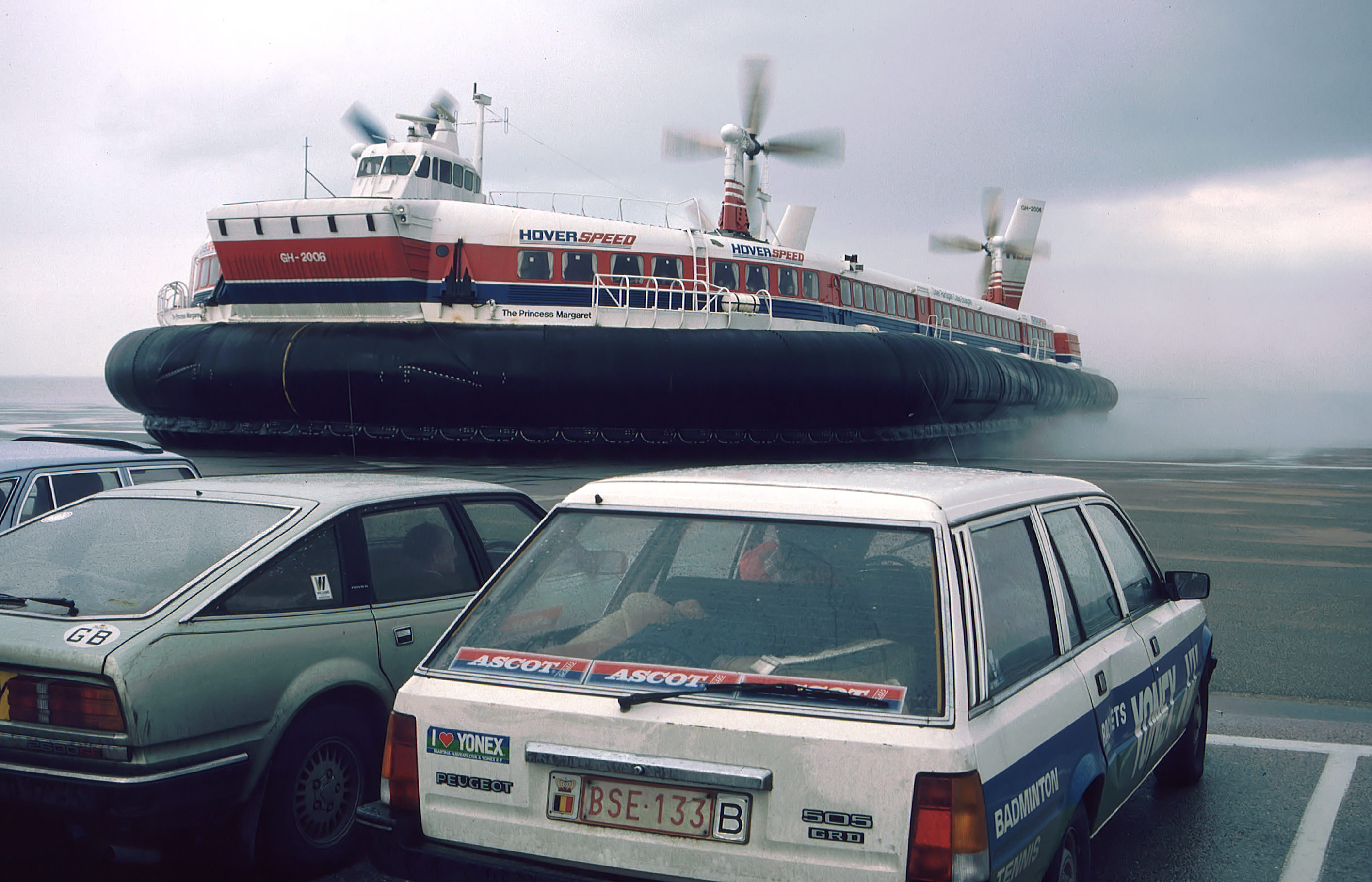 Hoverspeed SRN4 Mk III, The Princess Margaret, at Calais harbour